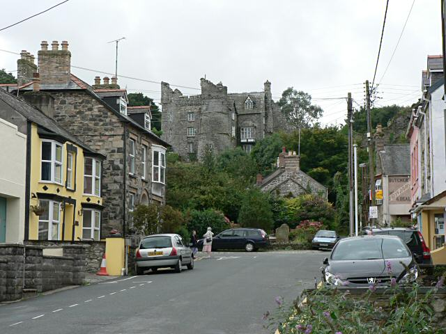 Newport.